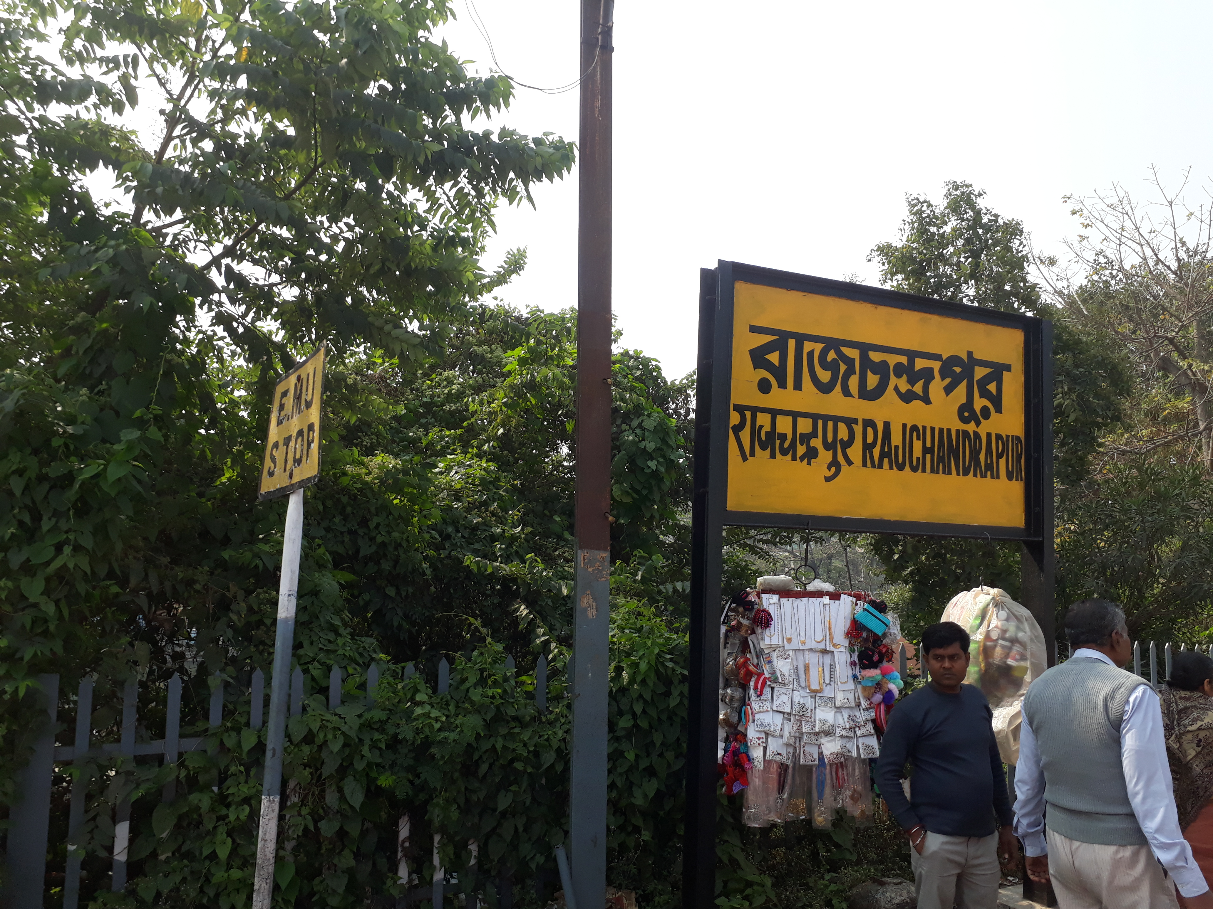 Rajchandrapur railway station situated on Sealdah Dankuni line, Hooghly